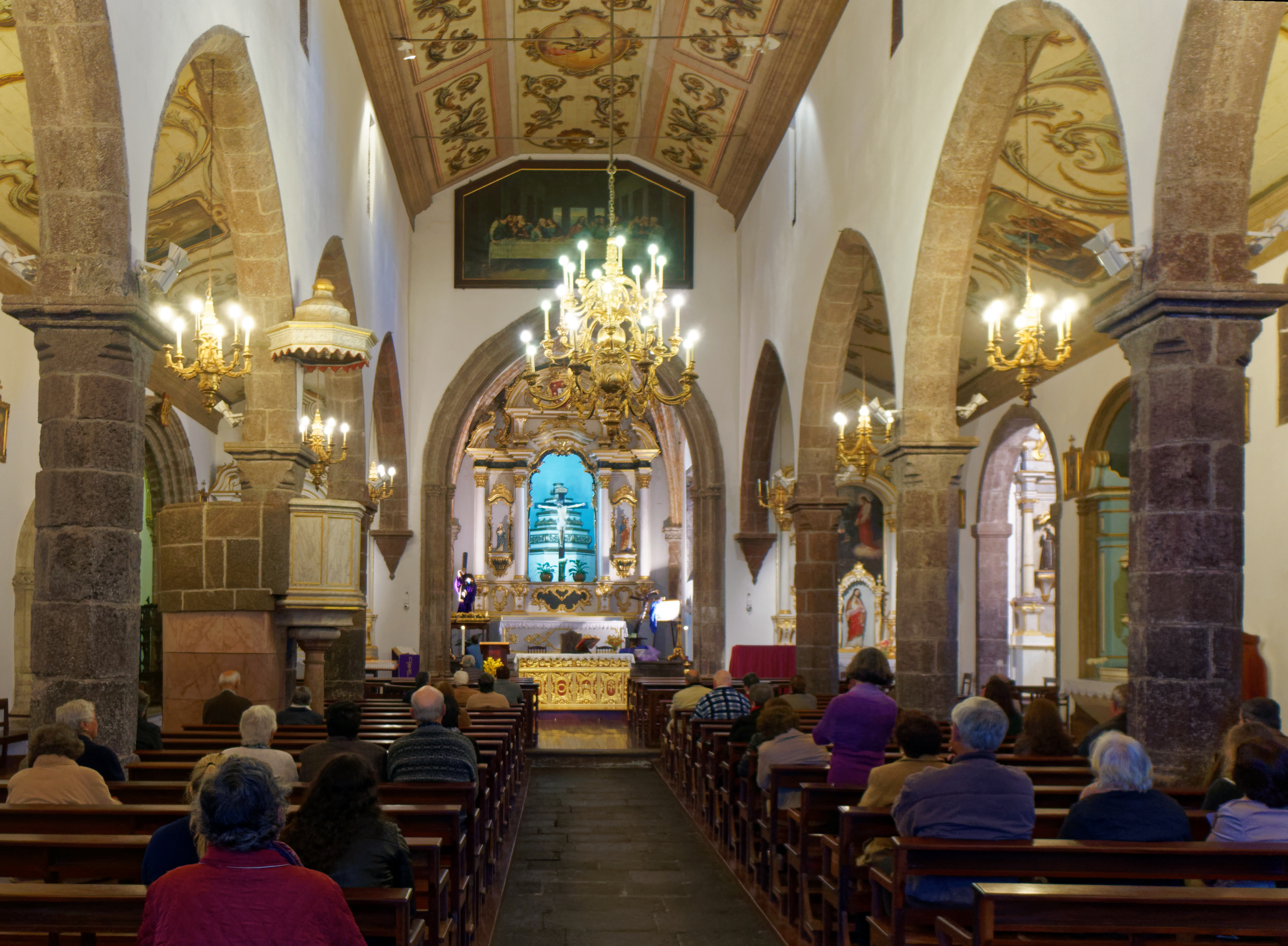 The Church of Sao Salvador in Santa Cruz, Madeira.